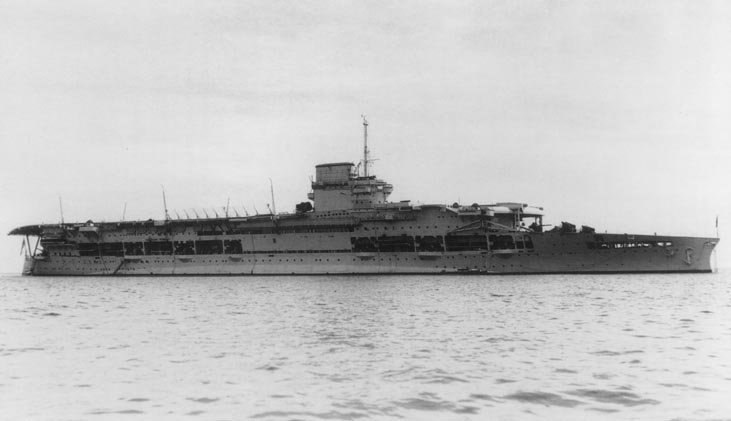 HMS Glorious as Aircraft Carrier